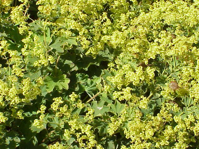 Species: Alchemilla vulgaris Family: Rosaceae Image No. 1